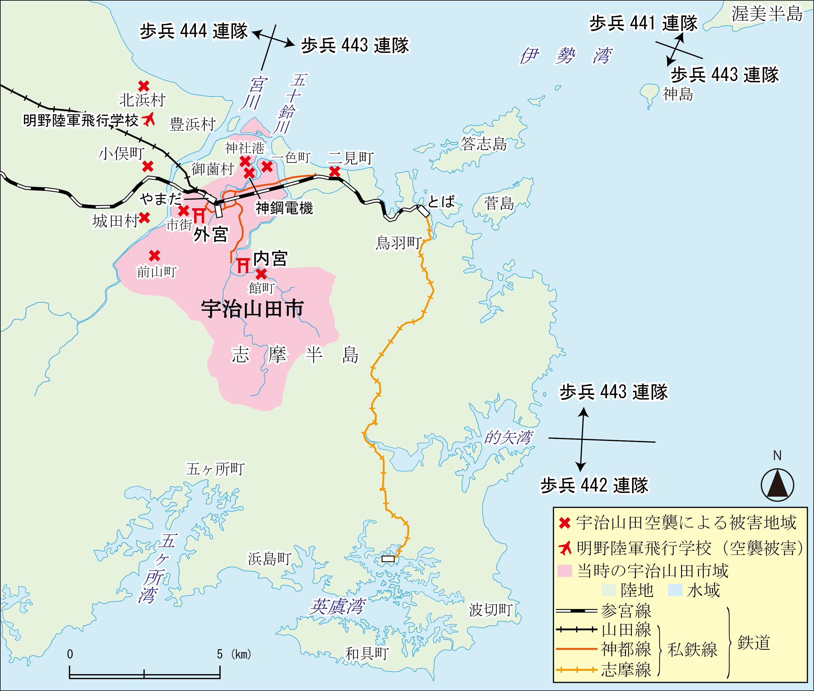 This is the map about the Bombing of Ujiyamada in 1945. Base map is OpenStreetMap. I also used these materials: YAMAGUCHI Keiichiro et, al. eds. (1973): "Japan Zushi Taikei Kansai II Mie, Shiga, Kyoto and Nara prefecture"Asakura Publishing Co., Ltd., Tokyo, Japan. "Ise Jingu Annai Zu"(Published in 1940, Contained in "Ise burari", a smartphone application)